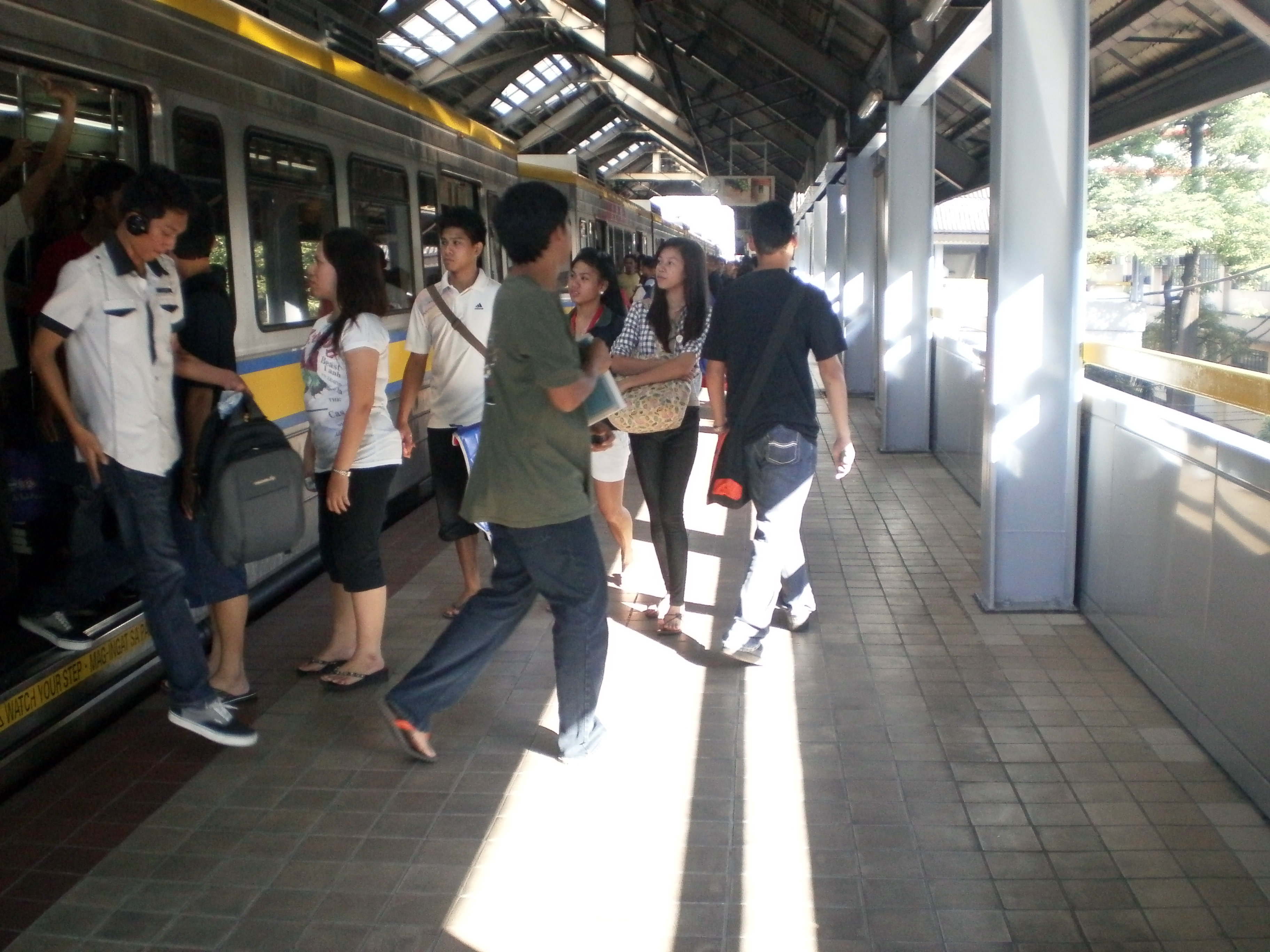 Platform Area of Pedro Gil Station